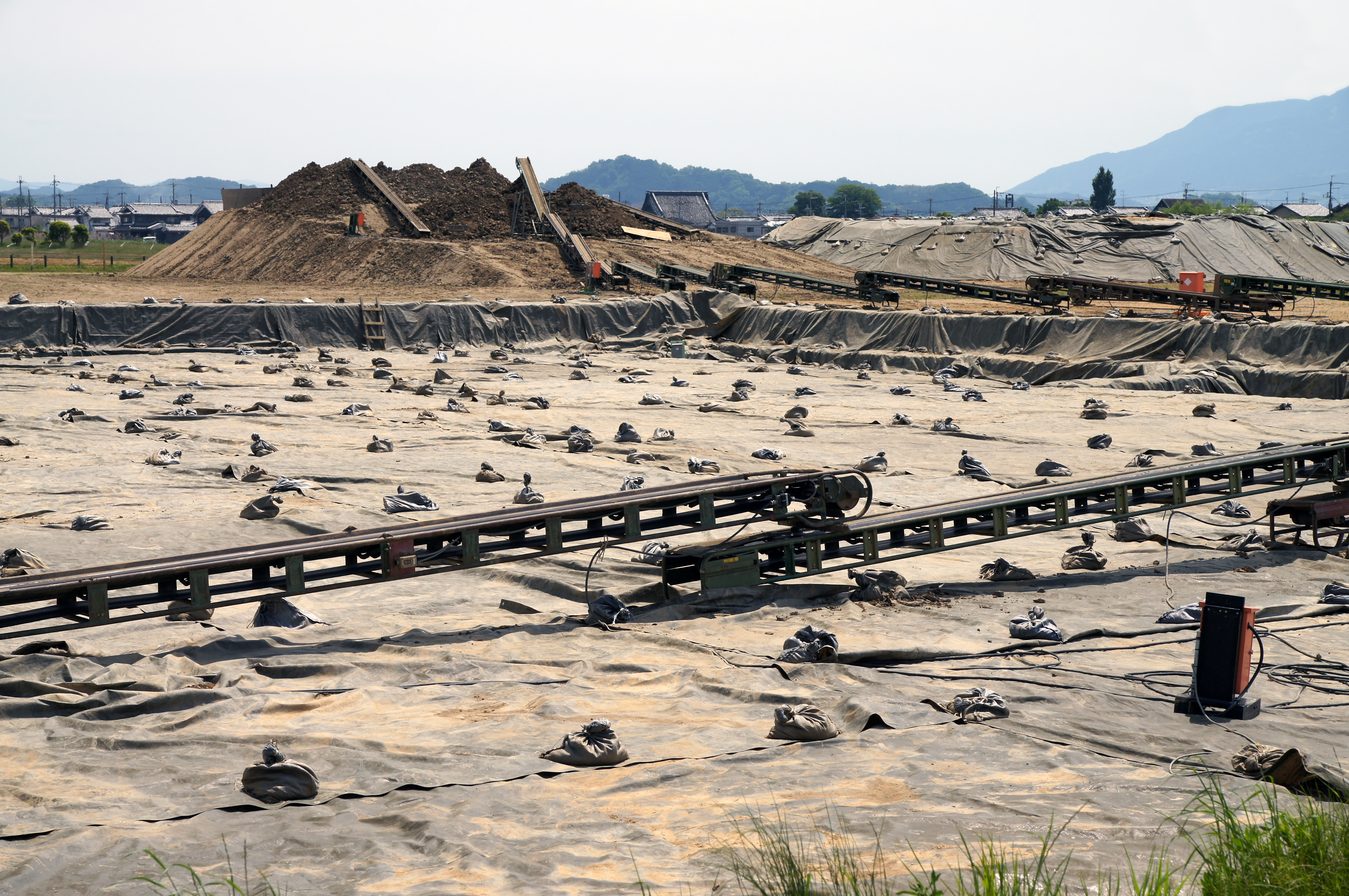 Fujiwara-kyō ruins in Kashihara, Nara prefecture, Japan